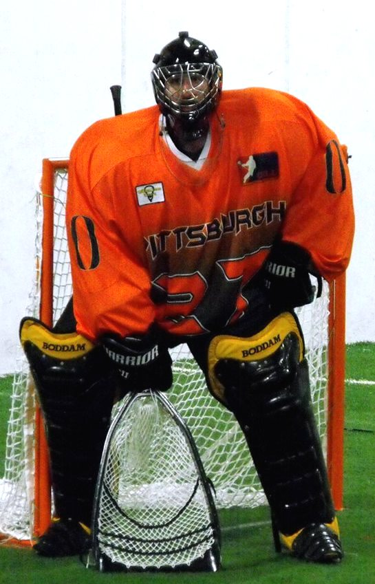 These are images of Continental Indoor Lacrosse League action during the 2014 season and are taken by Devan Mighton.